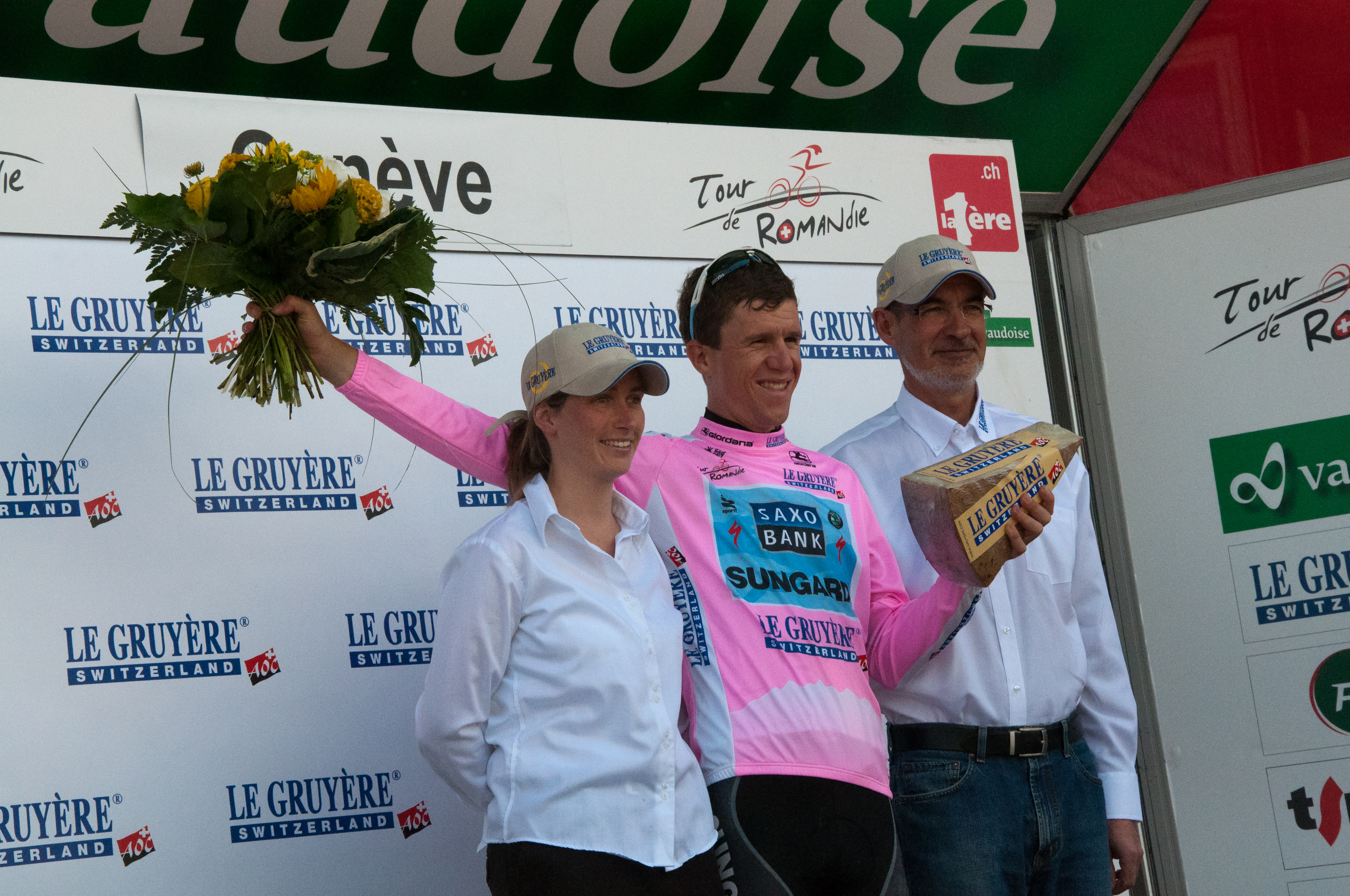 2011 Tour de Romandie, Winner of the Moutain Grand-Prix Chris Anker Sørensen wearing the final Pink jersey.